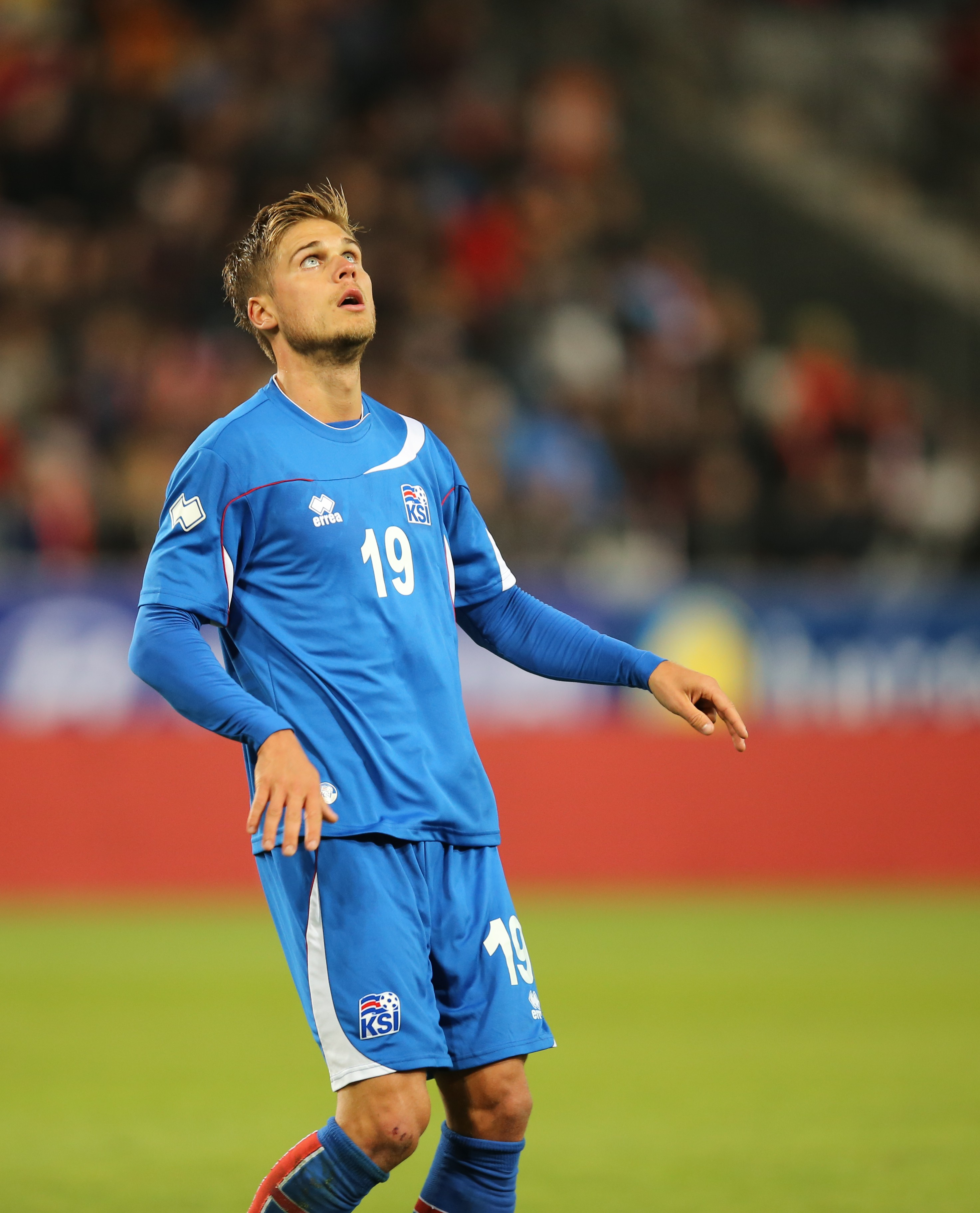 Austria - Iceland football match in Innsbruck, Austria on 2014-05-30. Austria in red, Iceland in blue.